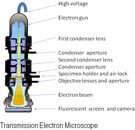 A cross-sectional, simplified diagram of a transmission electron microscope.